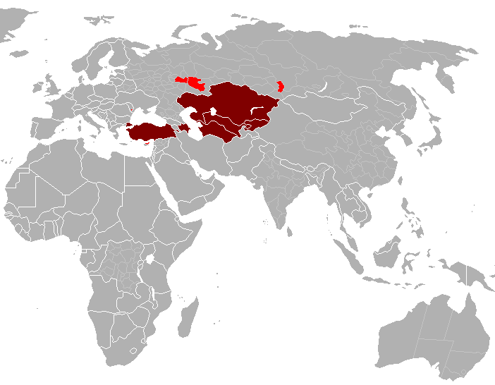 Map of the members of the TURKSOY organization.